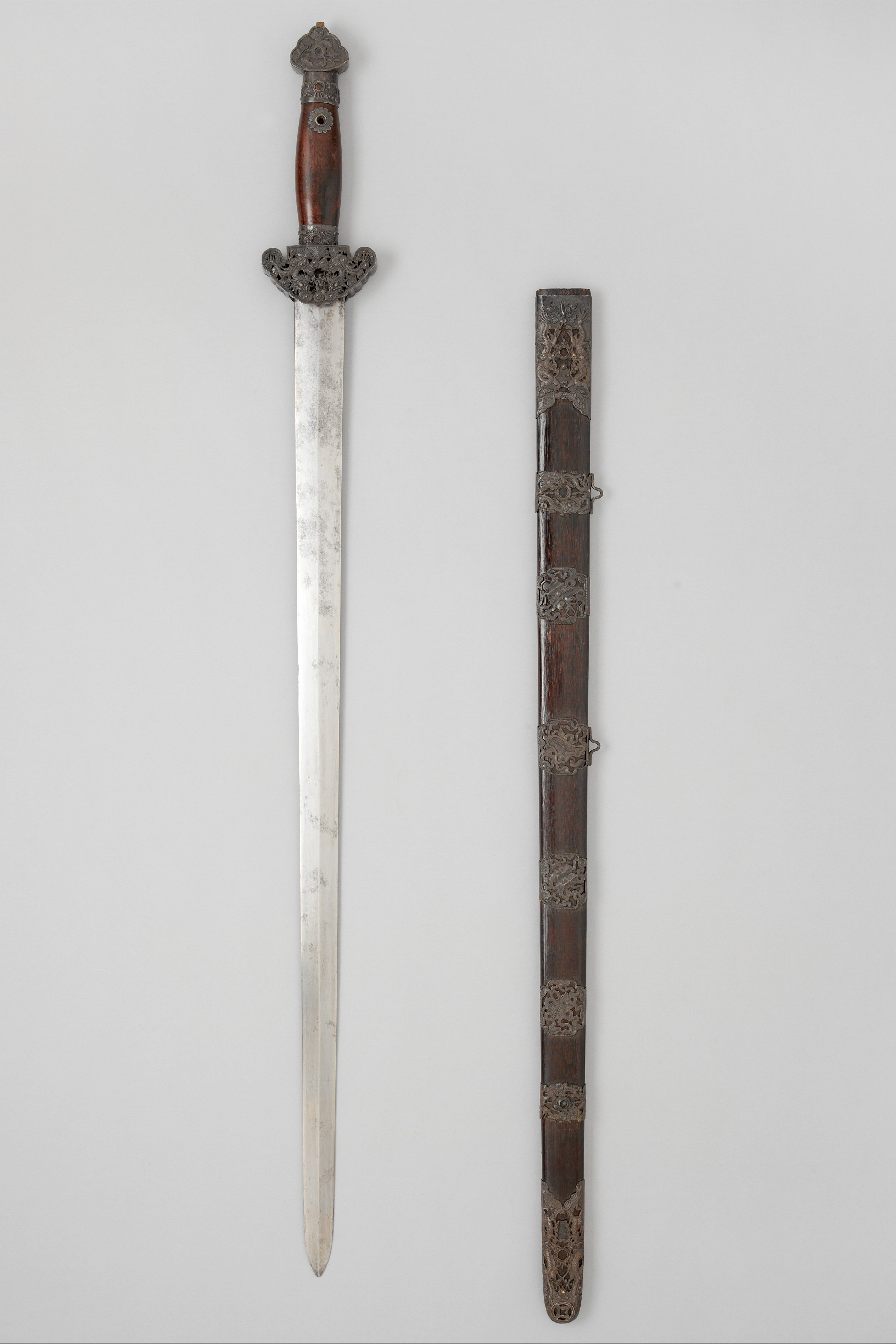 Chinese; Sword with scabbard; Swords